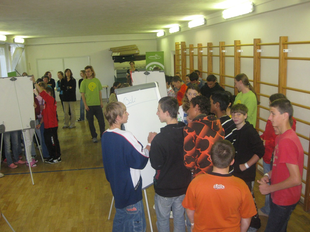 sběr odpadu VI